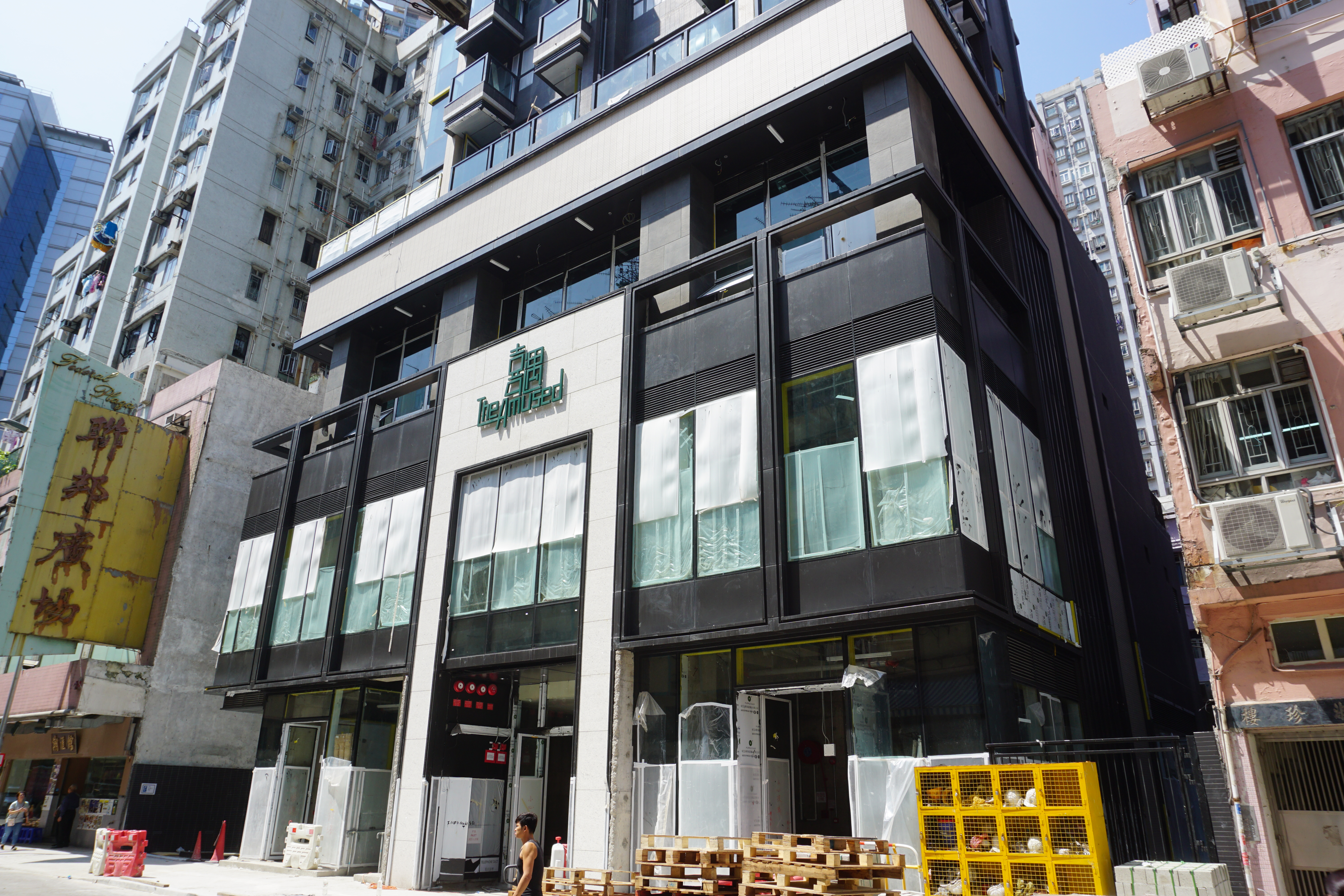 The Amused in Cheung Sha Wan, Hong Kong.